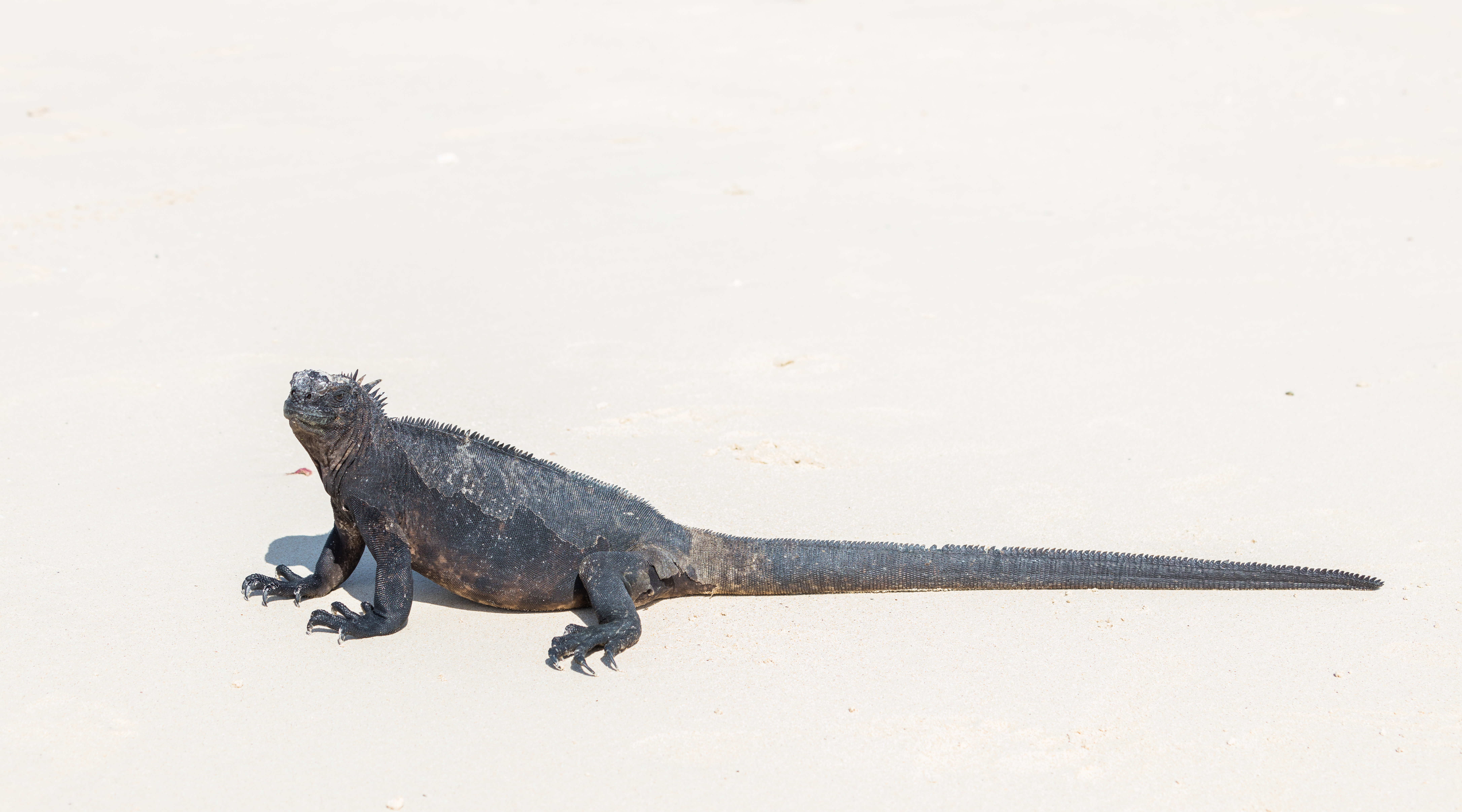 Marine iguana (Amblyrhynchus cristatus), Las Bachas, Baltra island, Galapagos islands, Ecuador